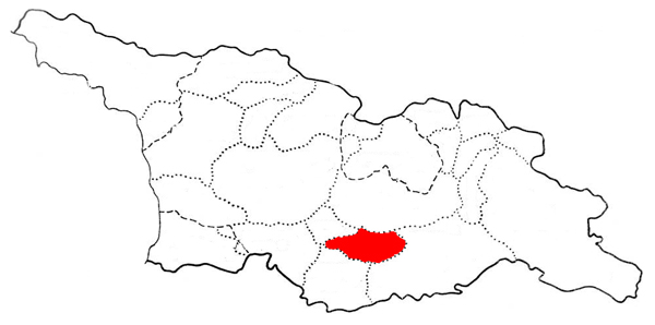 The historic region of Trialeti in Georgia. Trialeti.